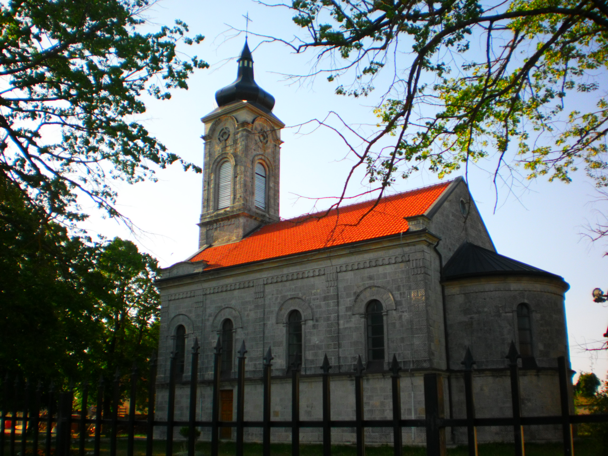 Orthodox church in Glamoč